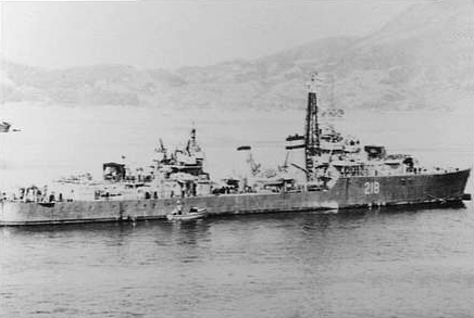 The Canadian Tribal-class destroyer HMCS Cayuga (218) at anchor at Kure, Japan.